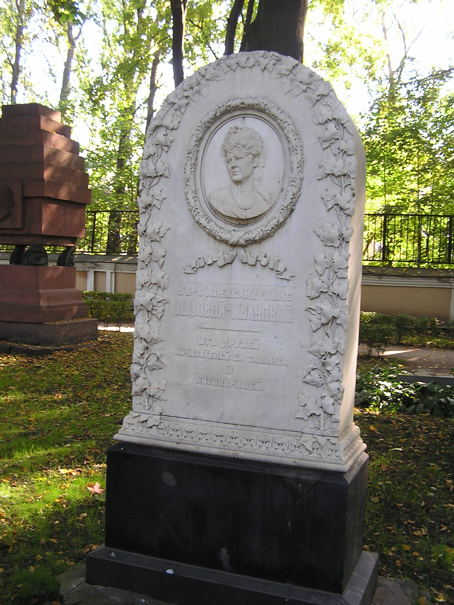 Tikhvin Cemetery